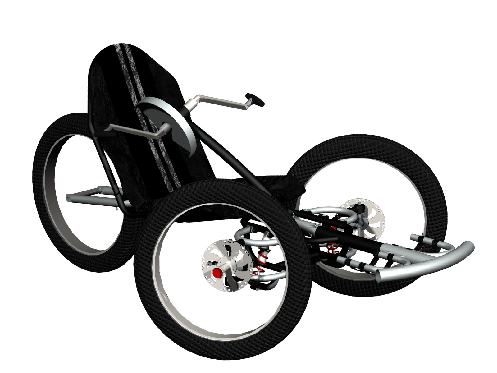 A three wheeled mountainbike designed by Thies Timmermans especially customized for people with a handicap to their legs.